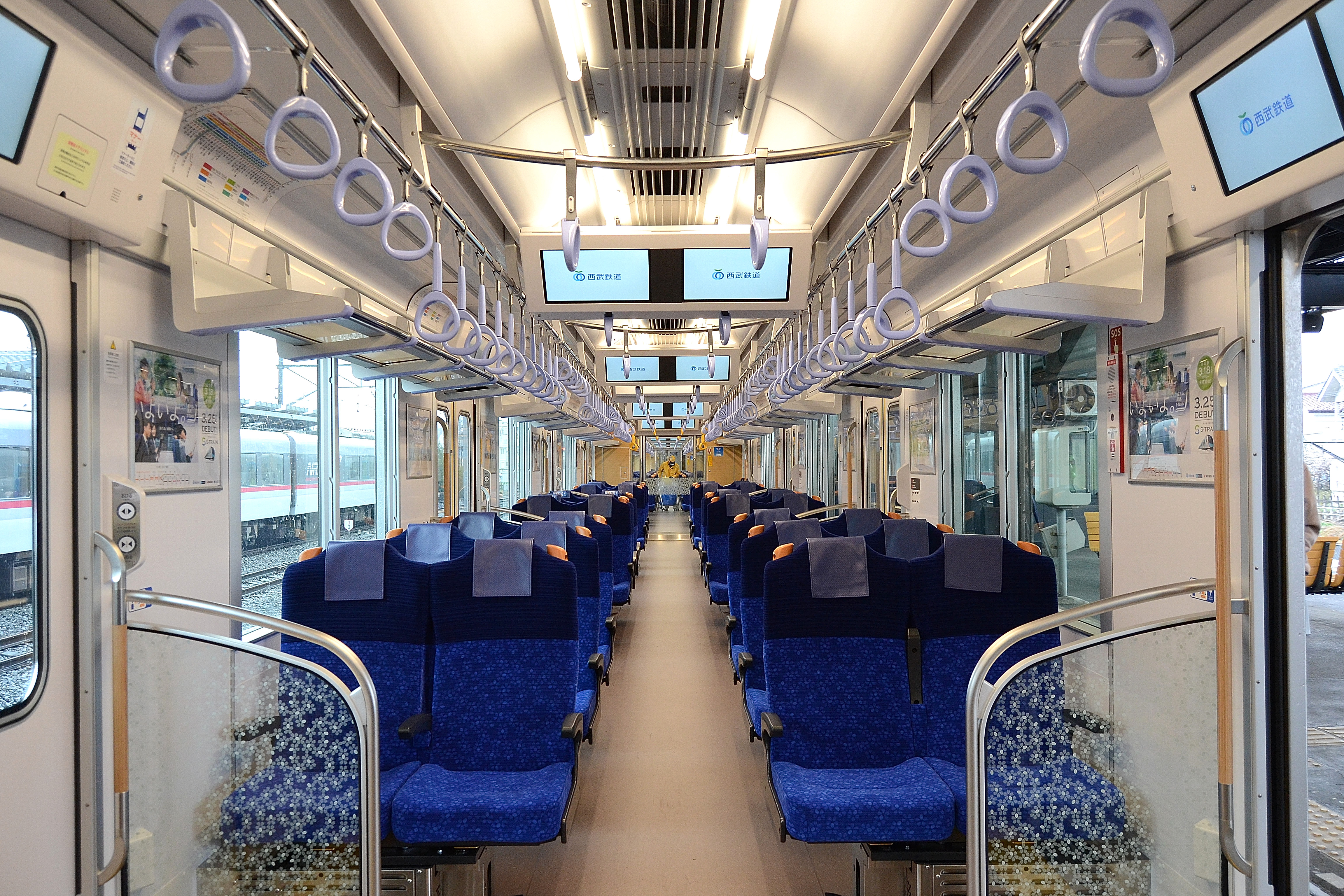 The interior of a Seibu Railway 40000 series EMU at Seibu-Chichibu Station after arriving on the S-Train 1 service from Motomachi-Chukagai